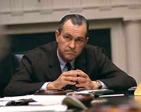 DCI Richard Helms, in the White House Cabinet Room.